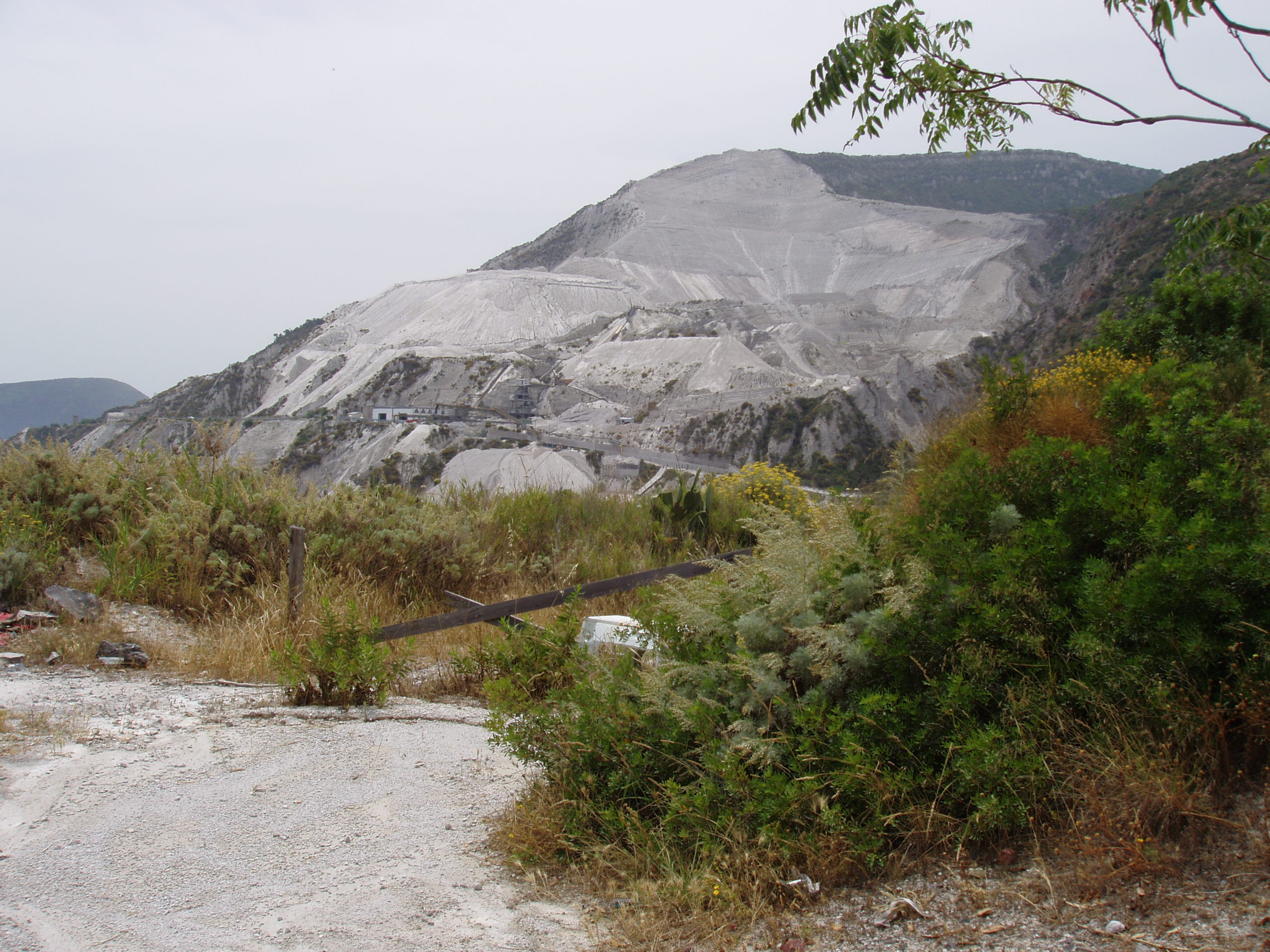 A pumice mine on the island of Lipari, west of the town of Acquacalda. Picture taken 06/14/05 by User:Herandar.